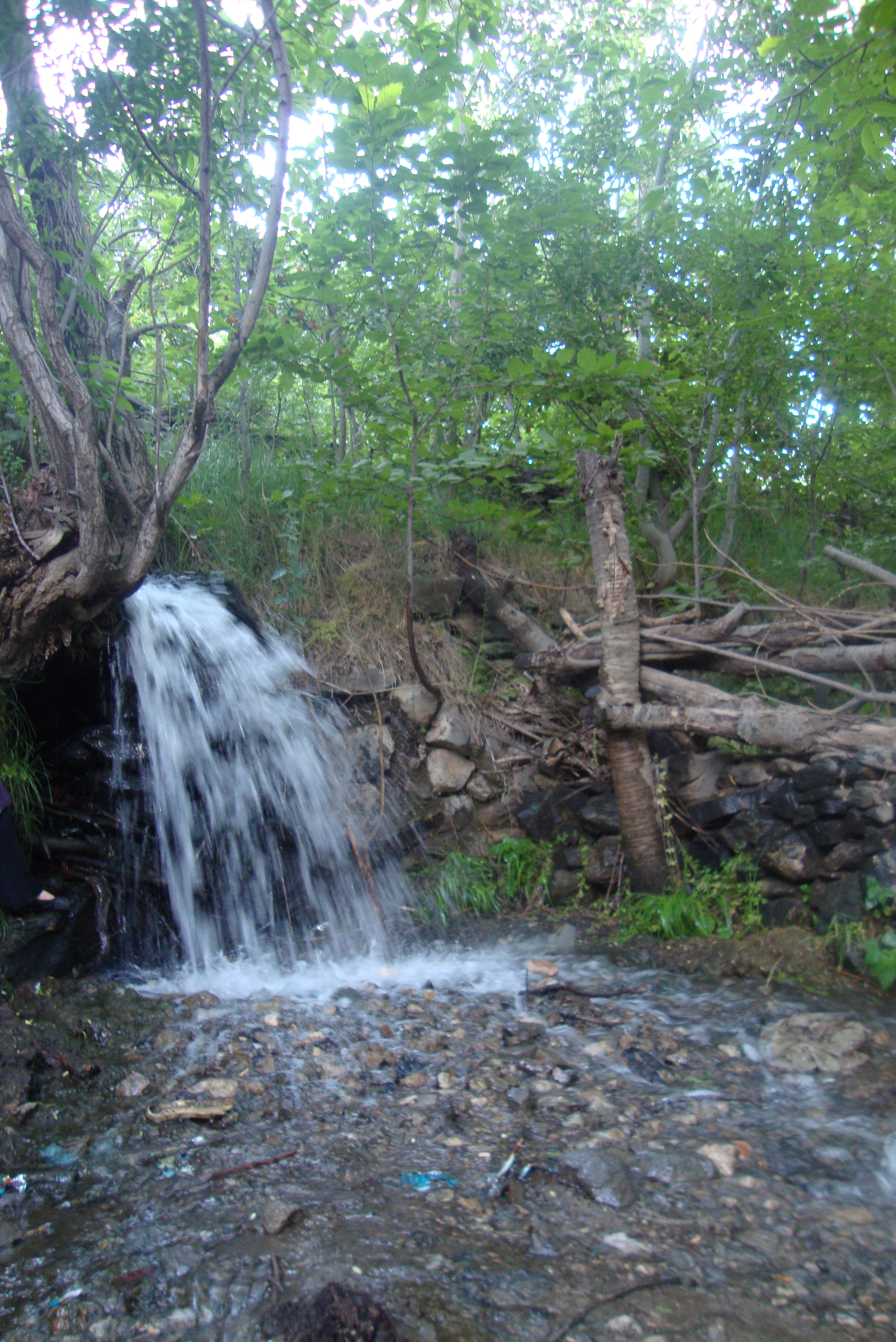 Morad Beig valley , Hamedan , Iran